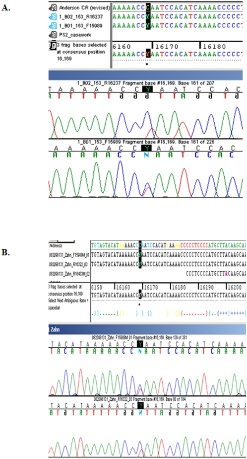 Screenshot of the 16169 C/T heteroplasmy present in Tsar Nicholas II using both forward and reverse sequencing primers.(A) Results from AFDIL's casework section. (B) Results from GMI.